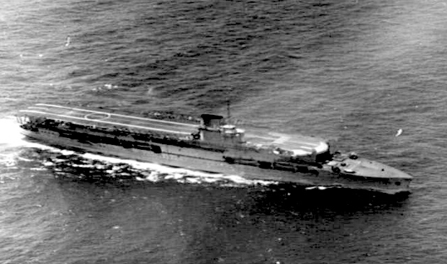 The Royal Navy aircraft carrier HMS Glorious (77) underway.